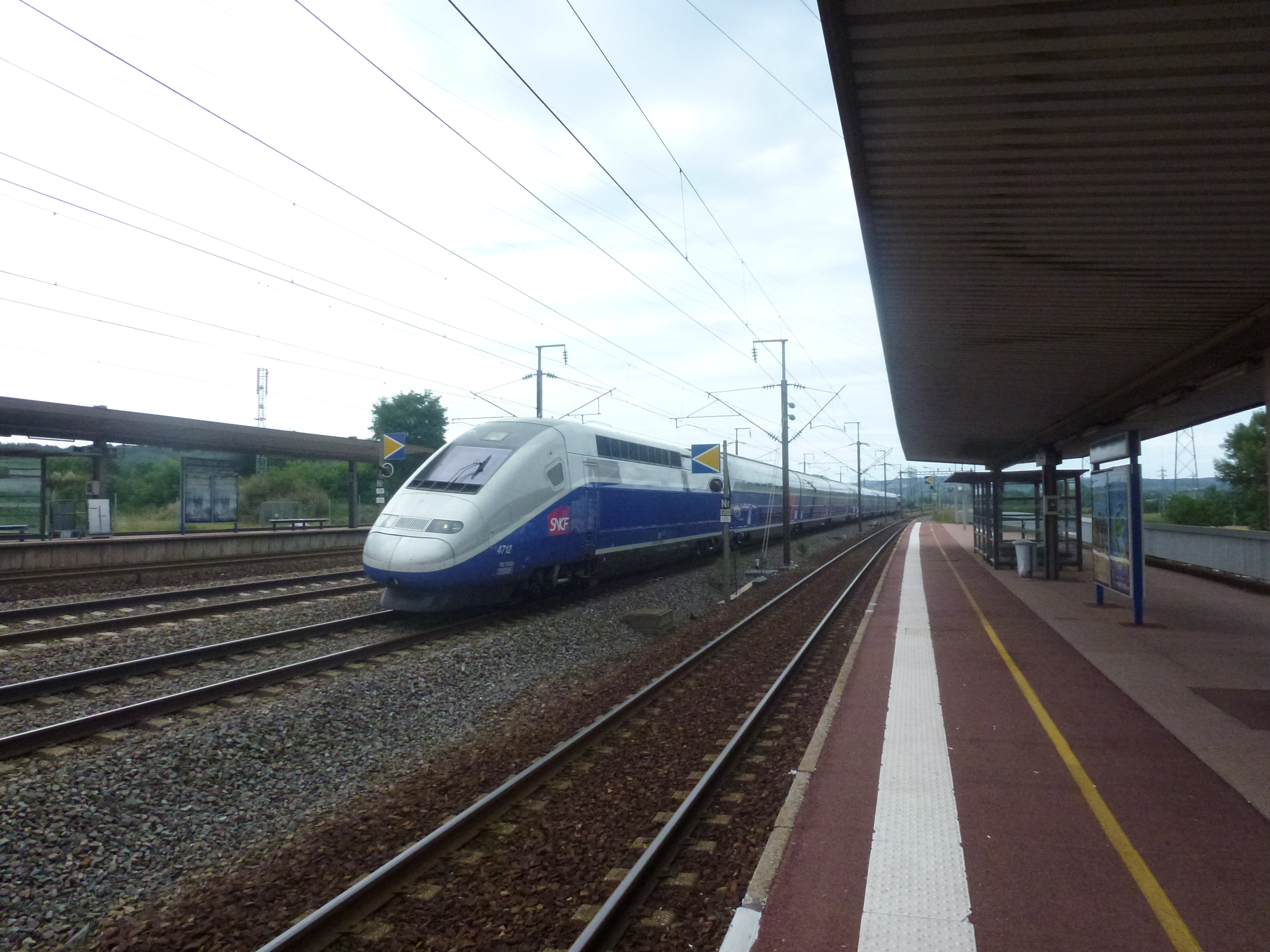 A TGV drives by at Mâcon Loché TGV.